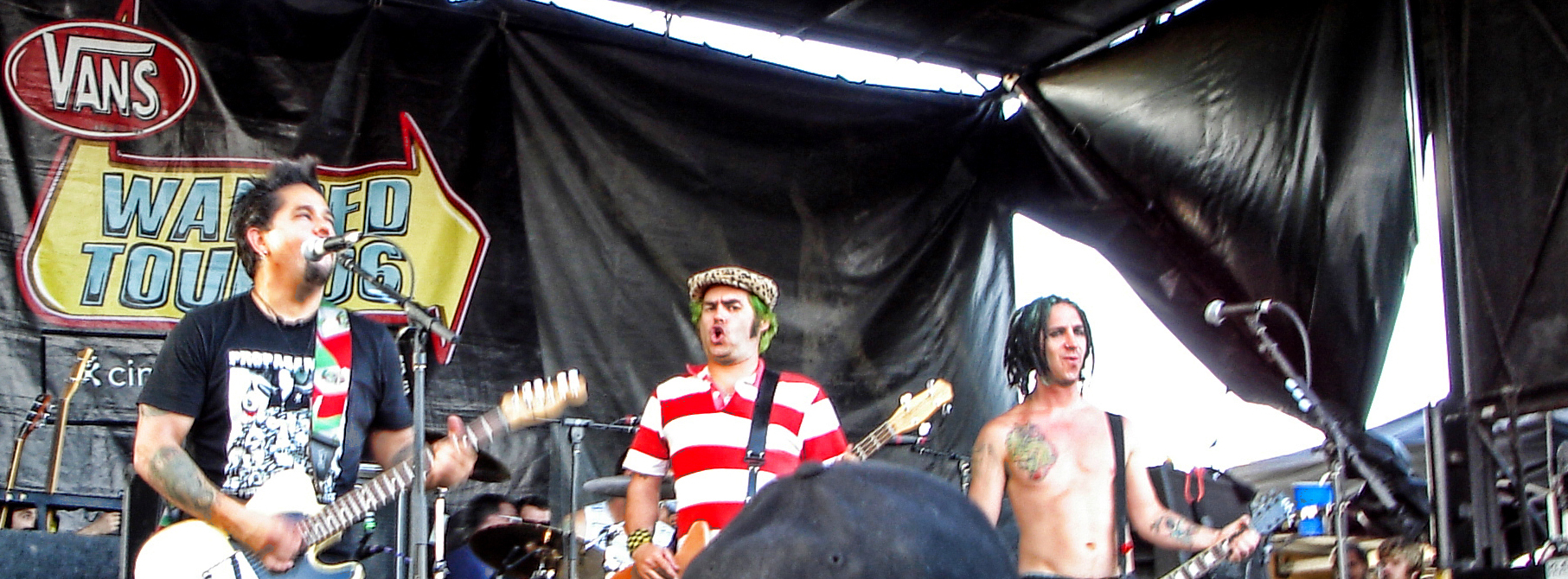 NOFX performing in Uniondale, NY as part of Warped Tour '06